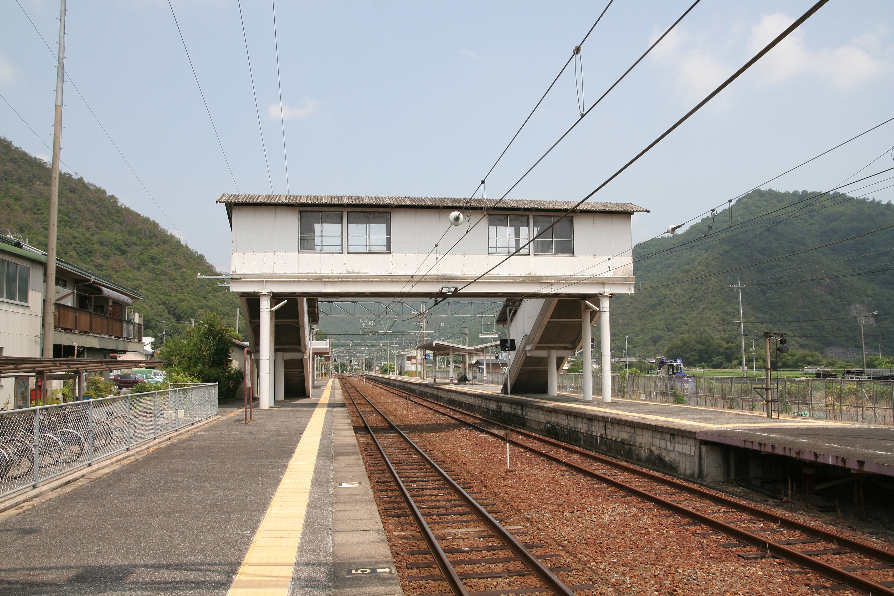 West Japan Railway Hakubi Line gōkei station enlosure